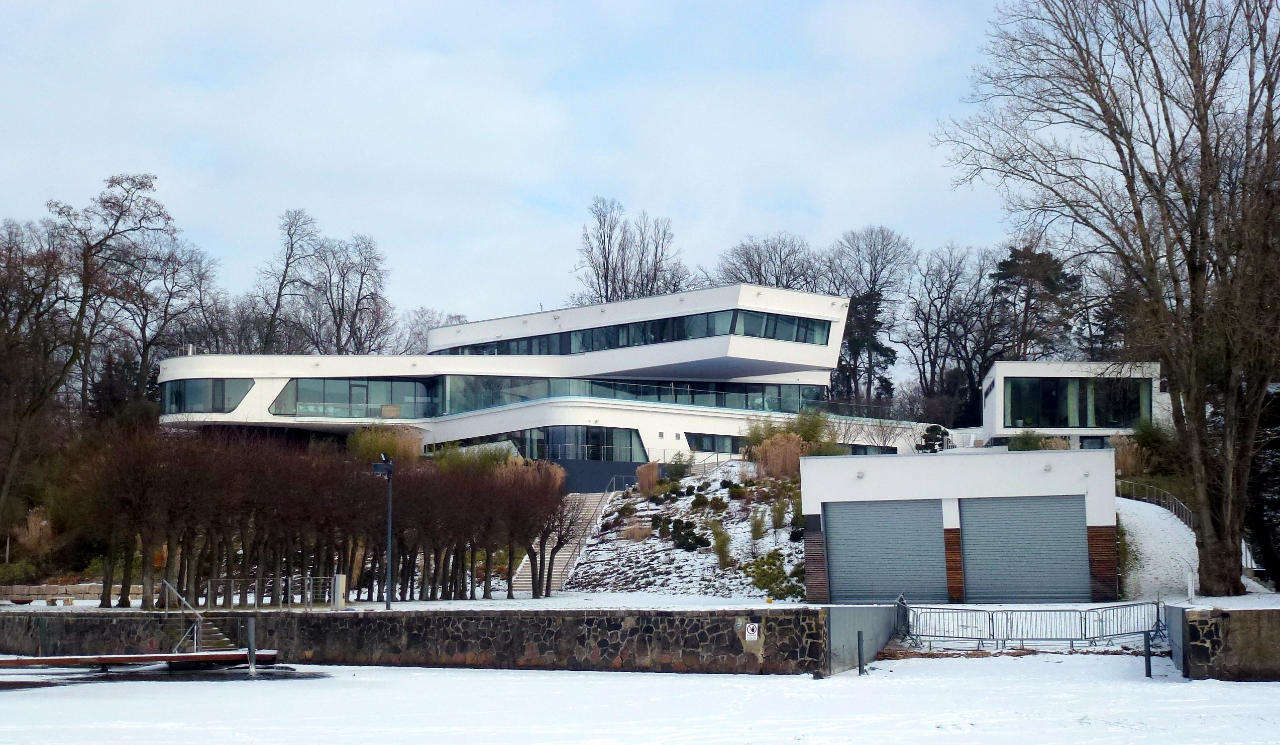 Berlin-Nikolassee Schwanenwerder Villa